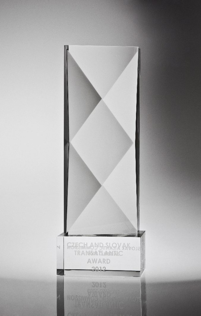 Photo of the Czech and Slovak Transatlantic Award made of transparent glass with clearly visible opposite side edge symbolizing the transatlantic link.